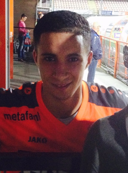 Rafik El Hamdi after FC Volendam - Jong PSV